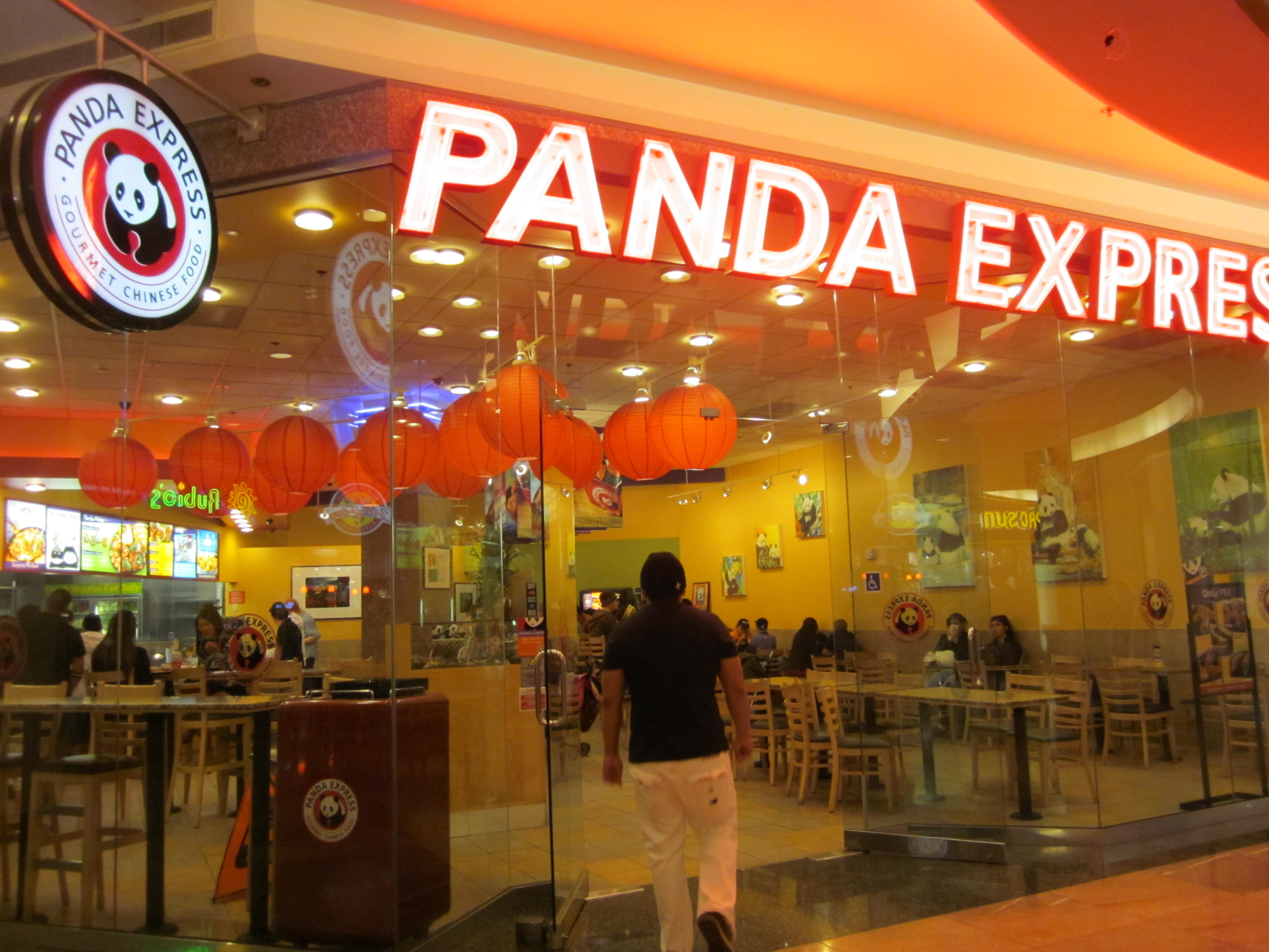 Panda Express at the Westfield San Francisco Centre, San Francisco